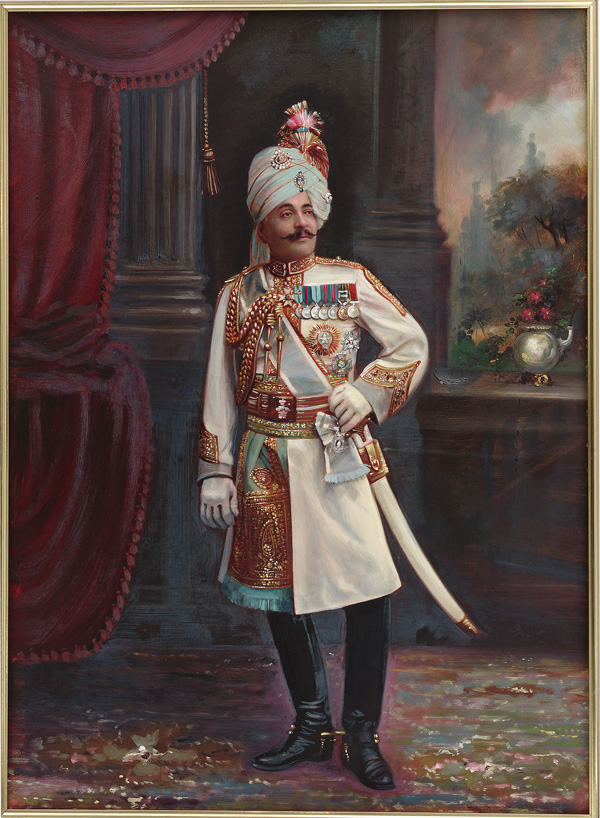 Sir Pratap Singh of Idar 1900-1920 Unidentified, Indian Paint on photograph H: 84.5 W: 67.9 cm India Gift of Joyce and Kenneth Robbins S2001.5